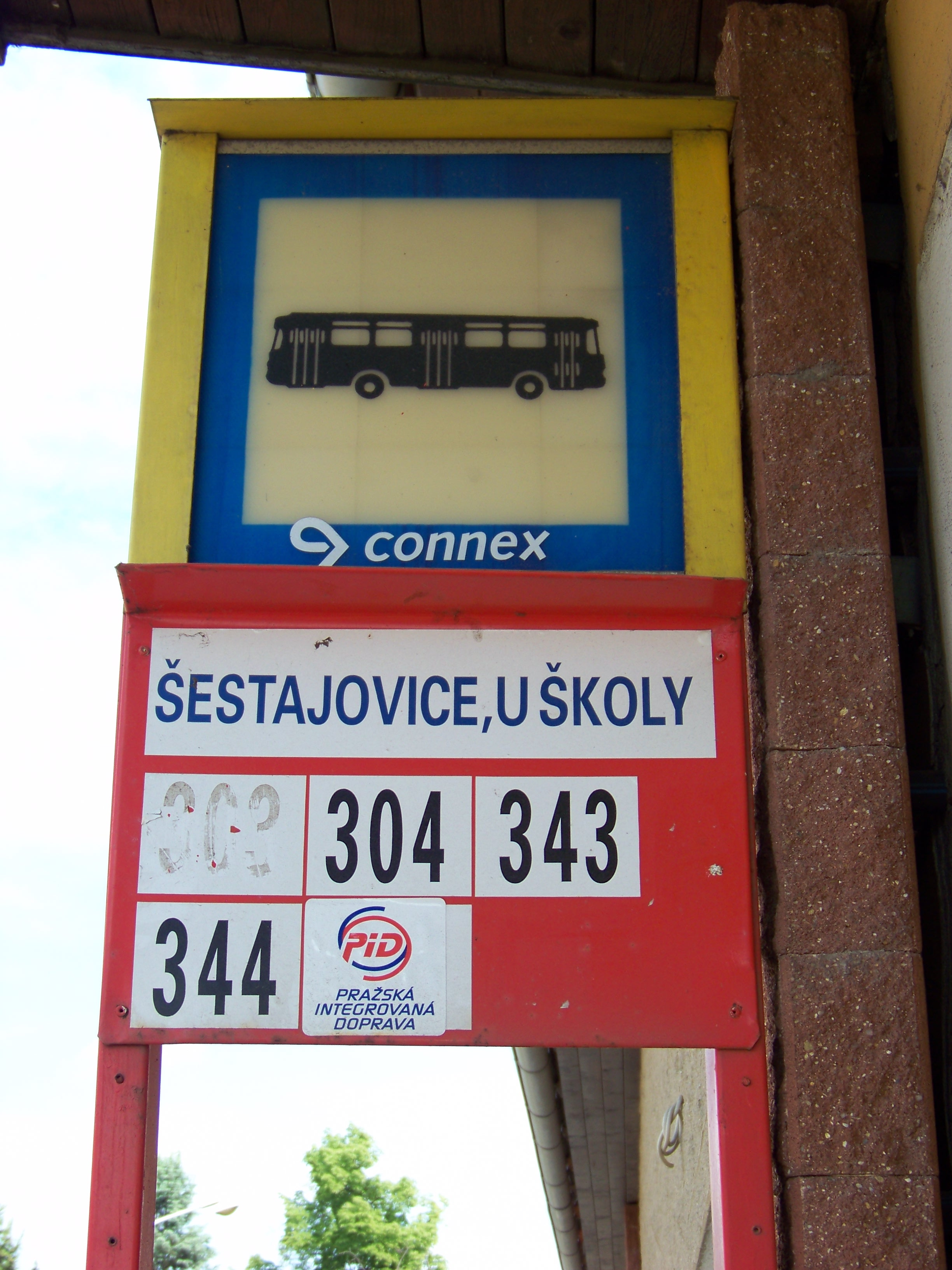 Šestajovice, Prague-East District, Central Bohemian Region, the Czech Republic. Komenského street, a bus stop.